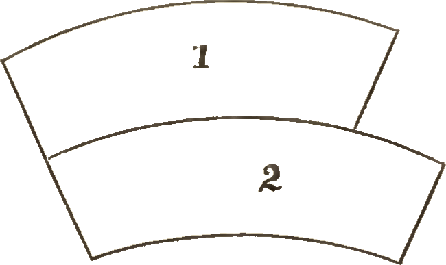 Early version of the Jastrow illusion